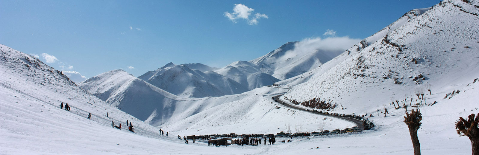 Shahmirzad, Semnanm, winter 2009